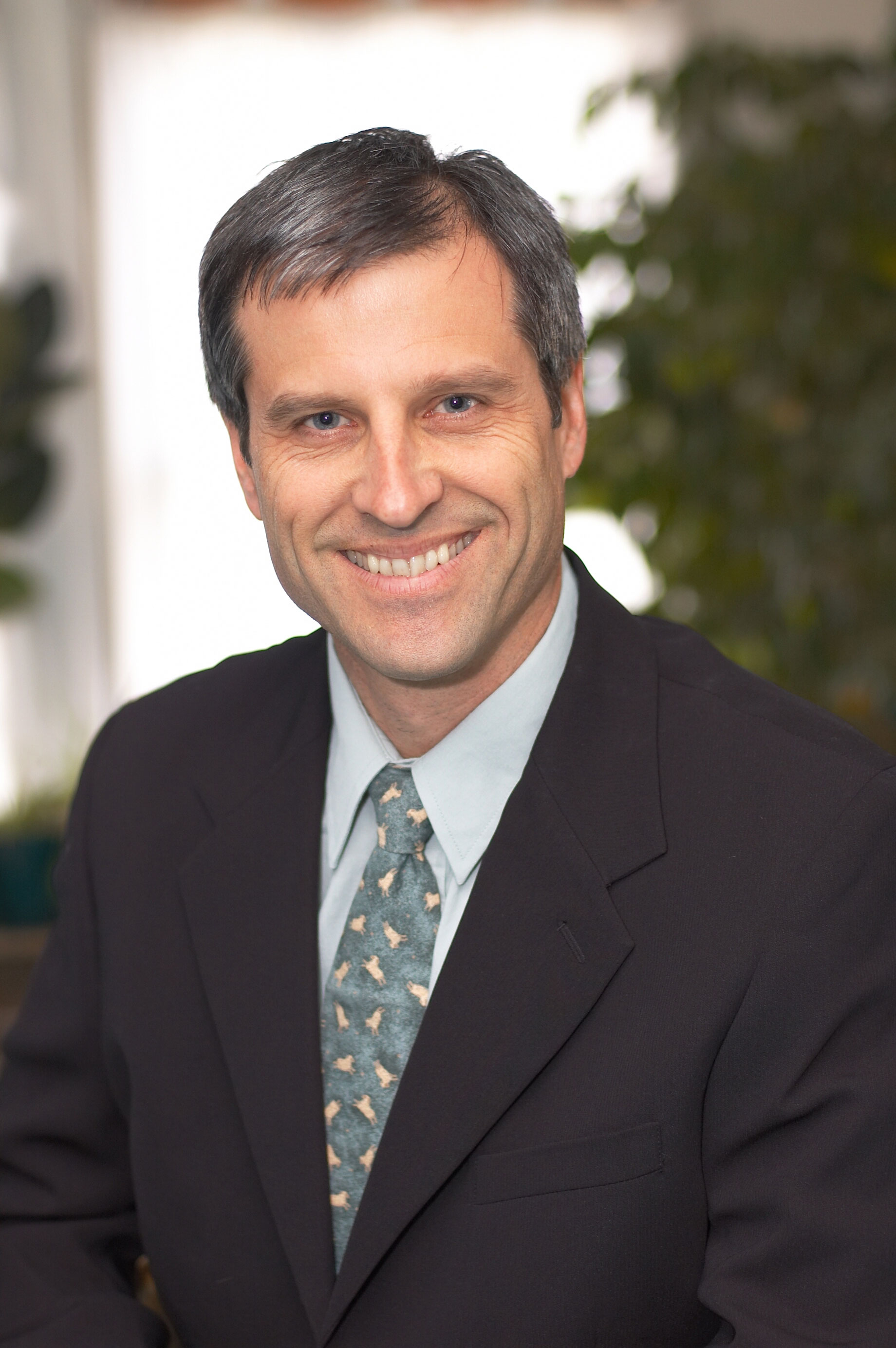 Info: Gene Baur is among the nation's foremost leaders in farm animal advocacy. He has been instrumental in passing some of the first U.S. laws that prohibit cruel farming practices such as gestation crates, foie gras, and veal crates. Source: Farm Sanctuary photo archives. This image was not taken from a web site. It was provided to me by Farm Sanctuary for use on Wikipedia and is not copyrighted.